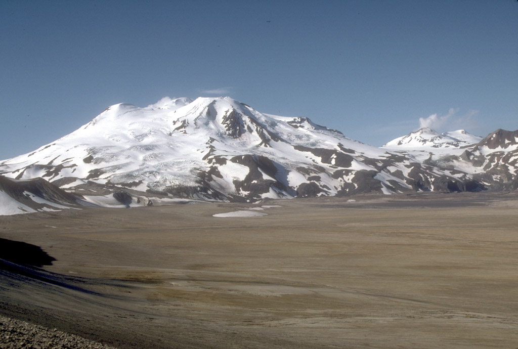 Mount Mageik (2,165 m [7,103 ft] high) and Mount Martin (1,863 m [6,112 ft] high; on skyline at right) volcanoes, both emitting steam plumes from their summits, as viewed to the southwest from across the Valley of Ten Thousand Smokes, Katmai National Park and Preserve, Alaska, USA